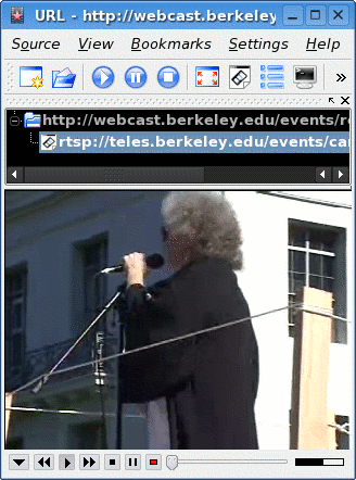 A screenshot from KMPlayer.